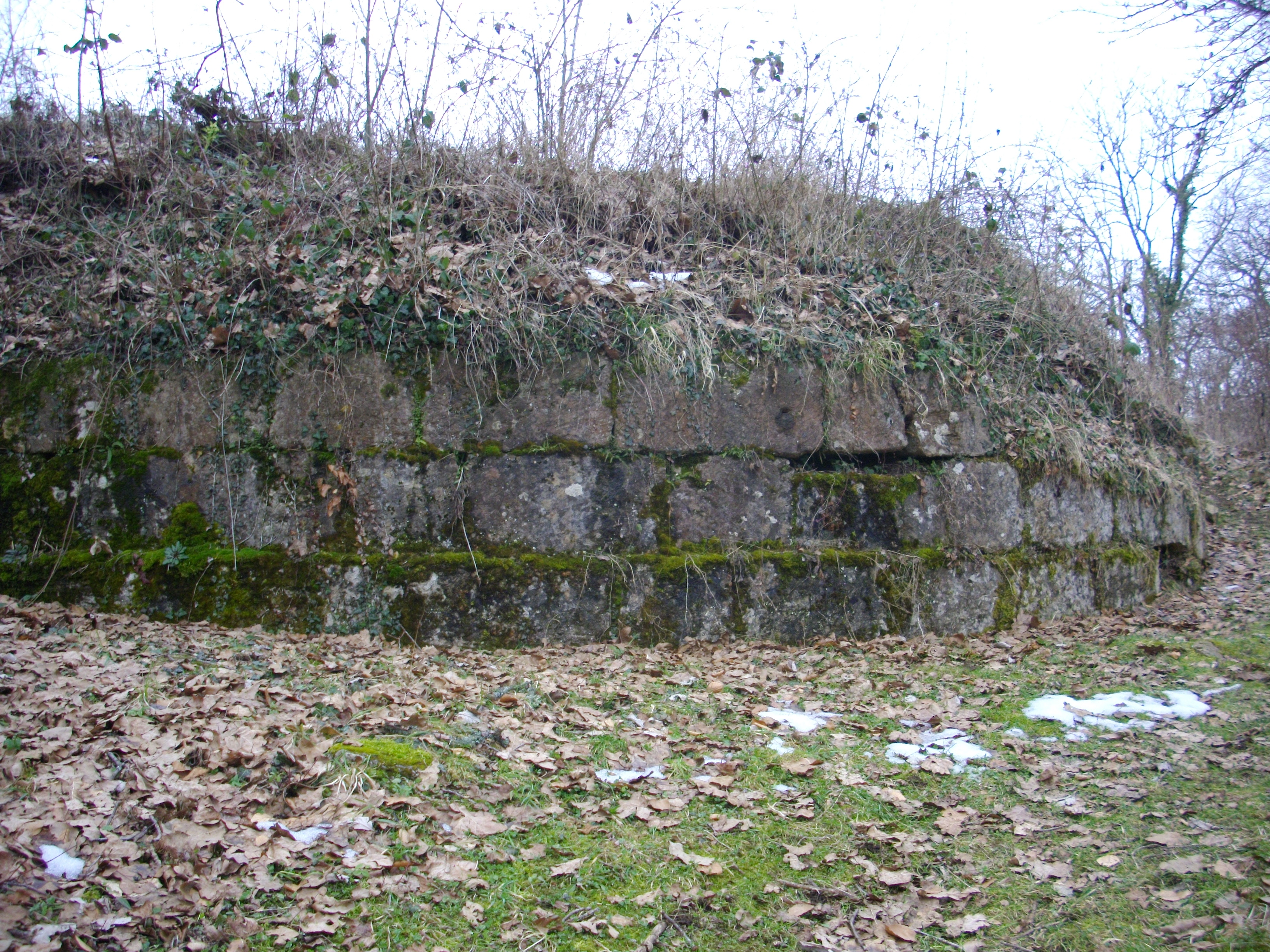 Ruins of Mont-Saint-Germain castle in Châtel-Saint-Germain (Moselle, France) : tower .